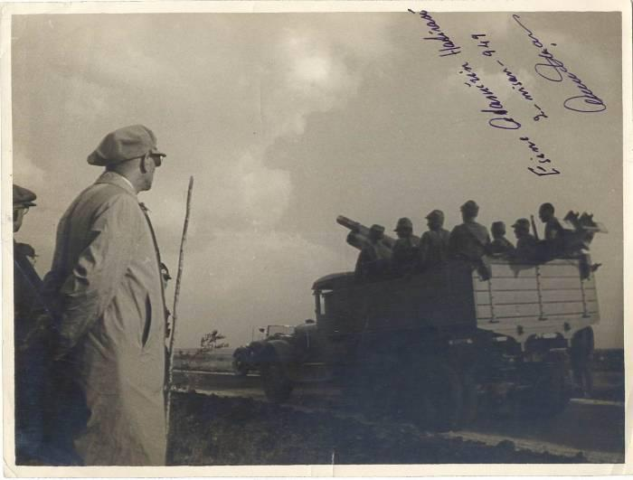 Kemal Atatürk (or alternatively written as Kamâl Atatürk, Mustafa Kemal Pasha until 1934, commonly referred to as Mustafa Kemal Atatürk; 1881 – 10 November 1938) was a Turkish field marshal, revolutionary statesman, author, and the founding father of the Republic of Turkey, serving as its first President from 1923 until his death in 1938. He undertook sweeping progressive reforms, which modernized Turkey into a secular, industrial nation. Ideologically a secularist and nationalist, his policies and theories became known as Kemalism. Due to his military and political accomplishments, Atatürk is regarded as one of the most important political leaders of the 20th century.